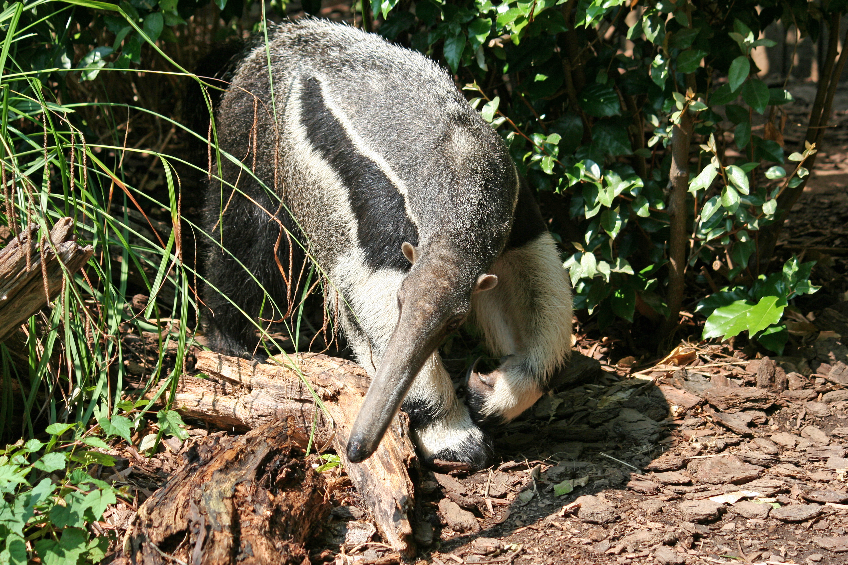 Anteater at National Zoo.